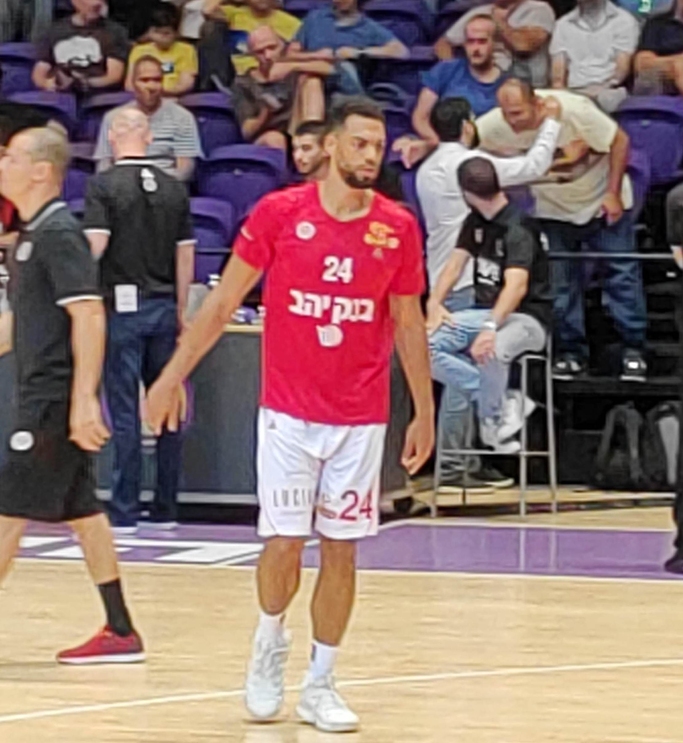 Trent Lockett with Hapoel Jerusalem in September 2019